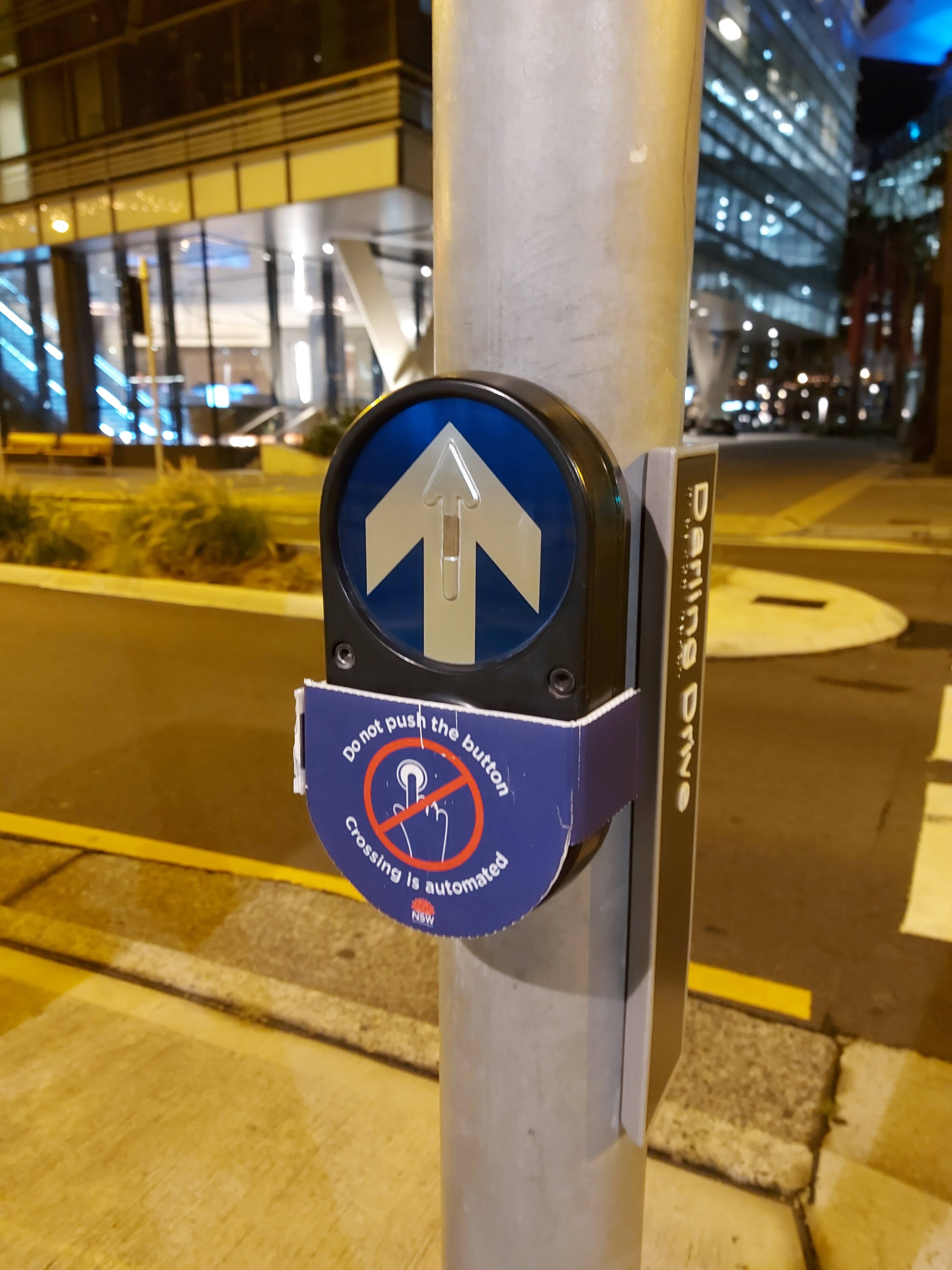 A notice on a pedestrian signalling pole at Darling Harbour, Sydney, Australia, warning pedestrians not to touch the activation button during the COVID-19 pandemic, as the crossing activates automatically to avoid the spread of COVID-19.